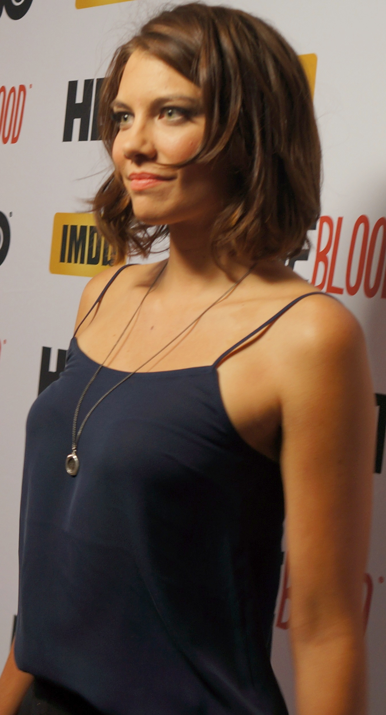 Lauren Cohan at the True Blood' Party on July 20, 2013